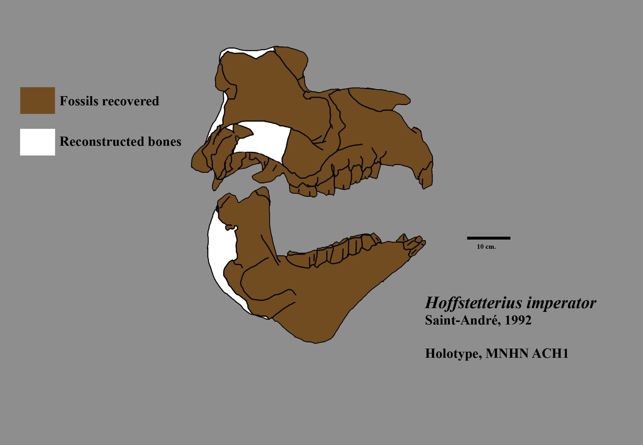 Skeletal drawing of the skull of the adult holotype of Hoffstteterius imperator, a toxodontid. Basado en: Saint-Andre, P. A. (1993). Hoffstetterius imperator ng, n. sp. du Miocène supérieur de l'Altiplano bolivien et le statut des Dinotoxodontinés (Mammalia, Notoungulata). Comptes rendus de l'Académie des sciences. Série 2, Mécanique, Physique, Chimie, Sciences de l'univers, Sciences de la Terre, 316(4), 539-545.